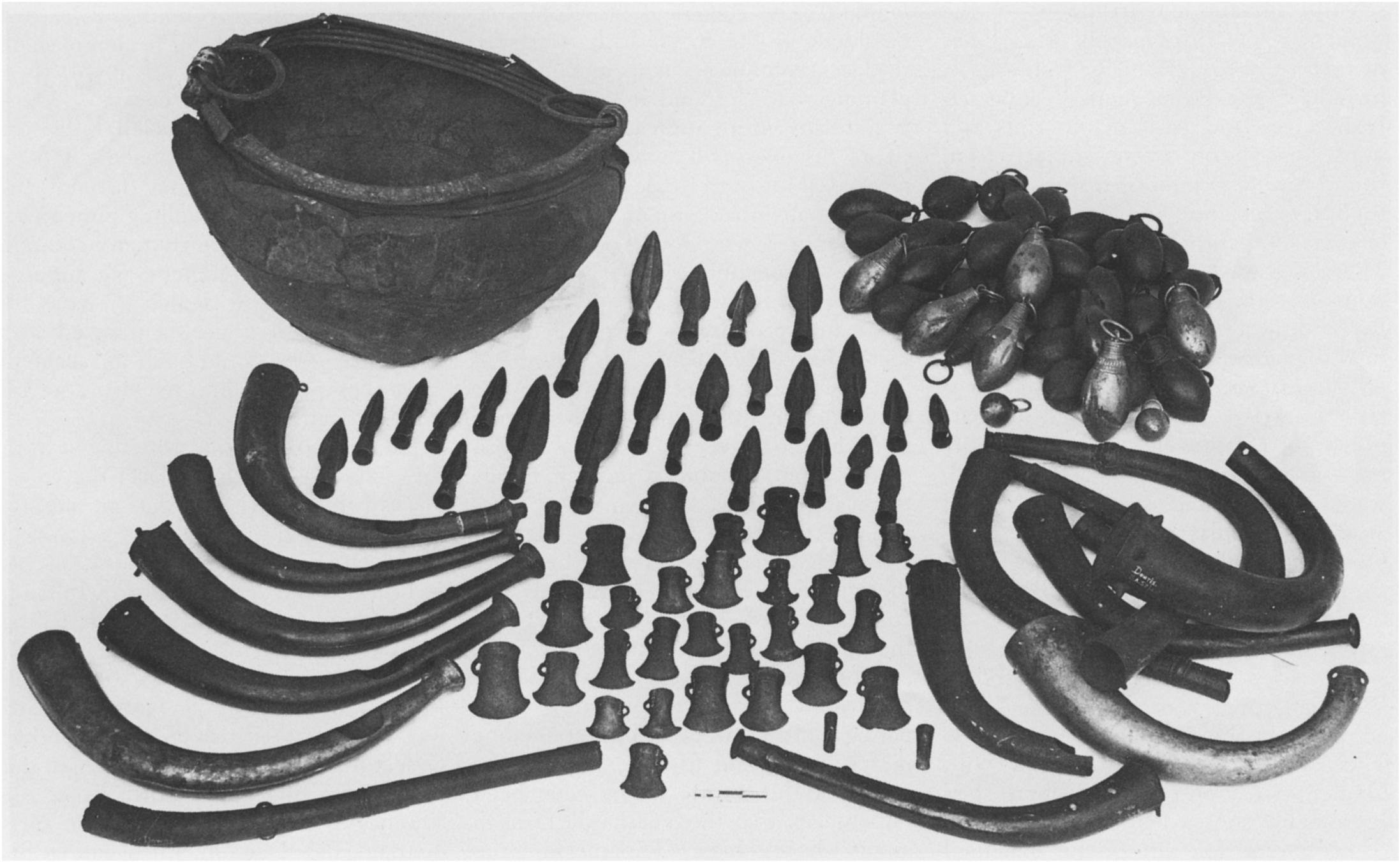 Dowris Hoard Photo Armagh Museum. None of the hoard is in the Armagh Museum. This photo seems to be the items in the National Museum of Ireland, Kildare Street. Others are in the British Museum.